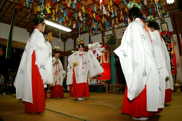 tokuyamakagura